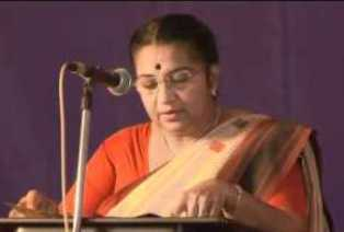 Taken during Central University of Kerala's signature Public Interface Programme called "Katha"